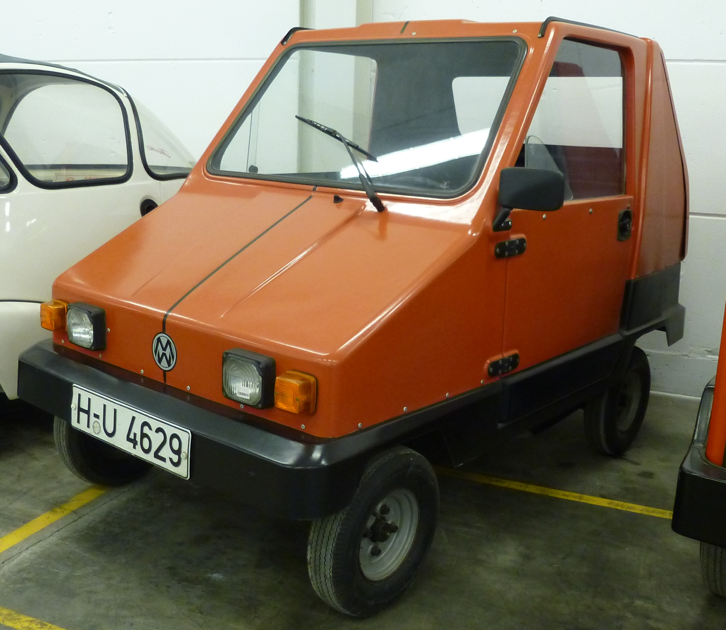 MW Cityboy 1984